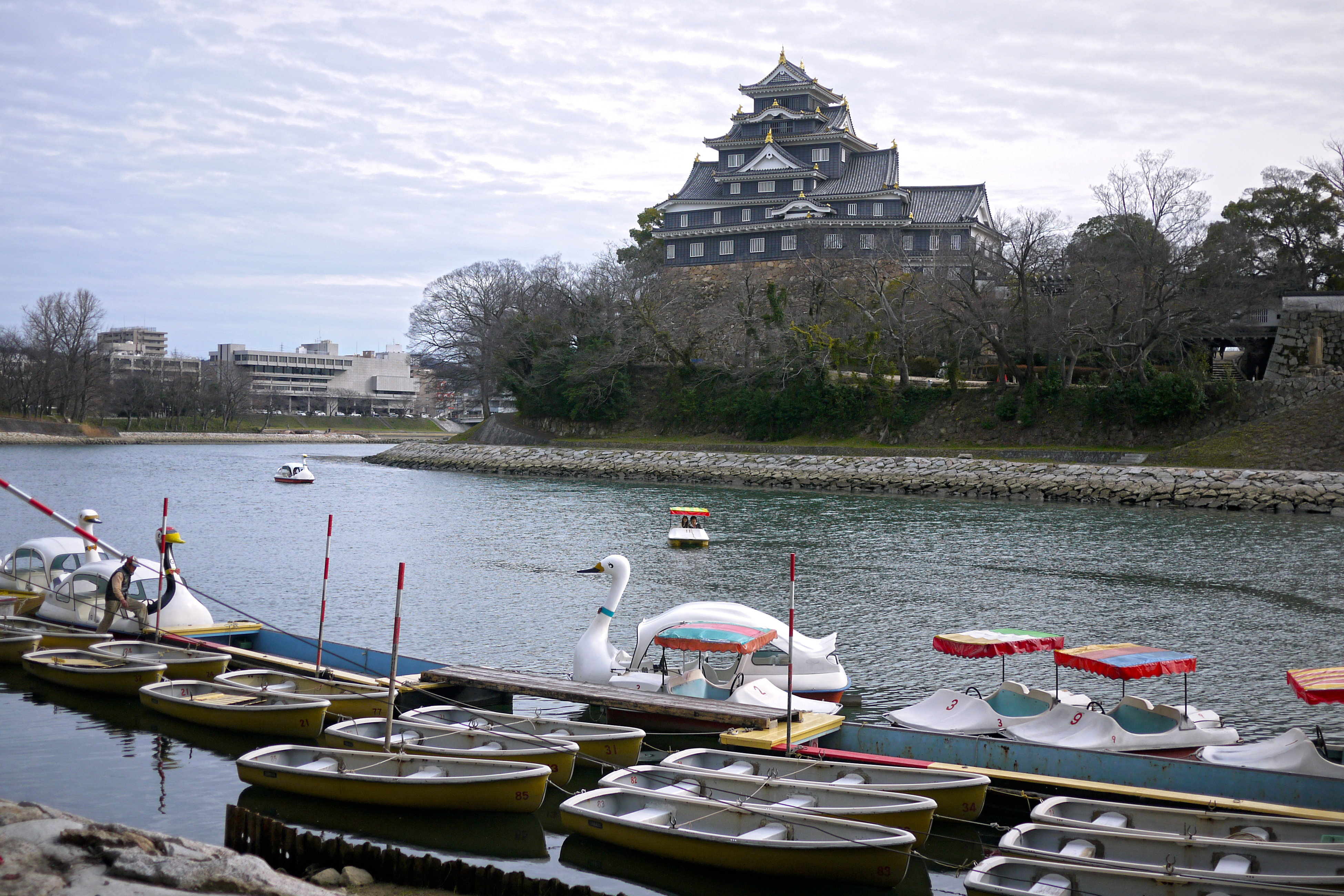 Okayama Castle in Okayama, Okayama prefecture, Japan.